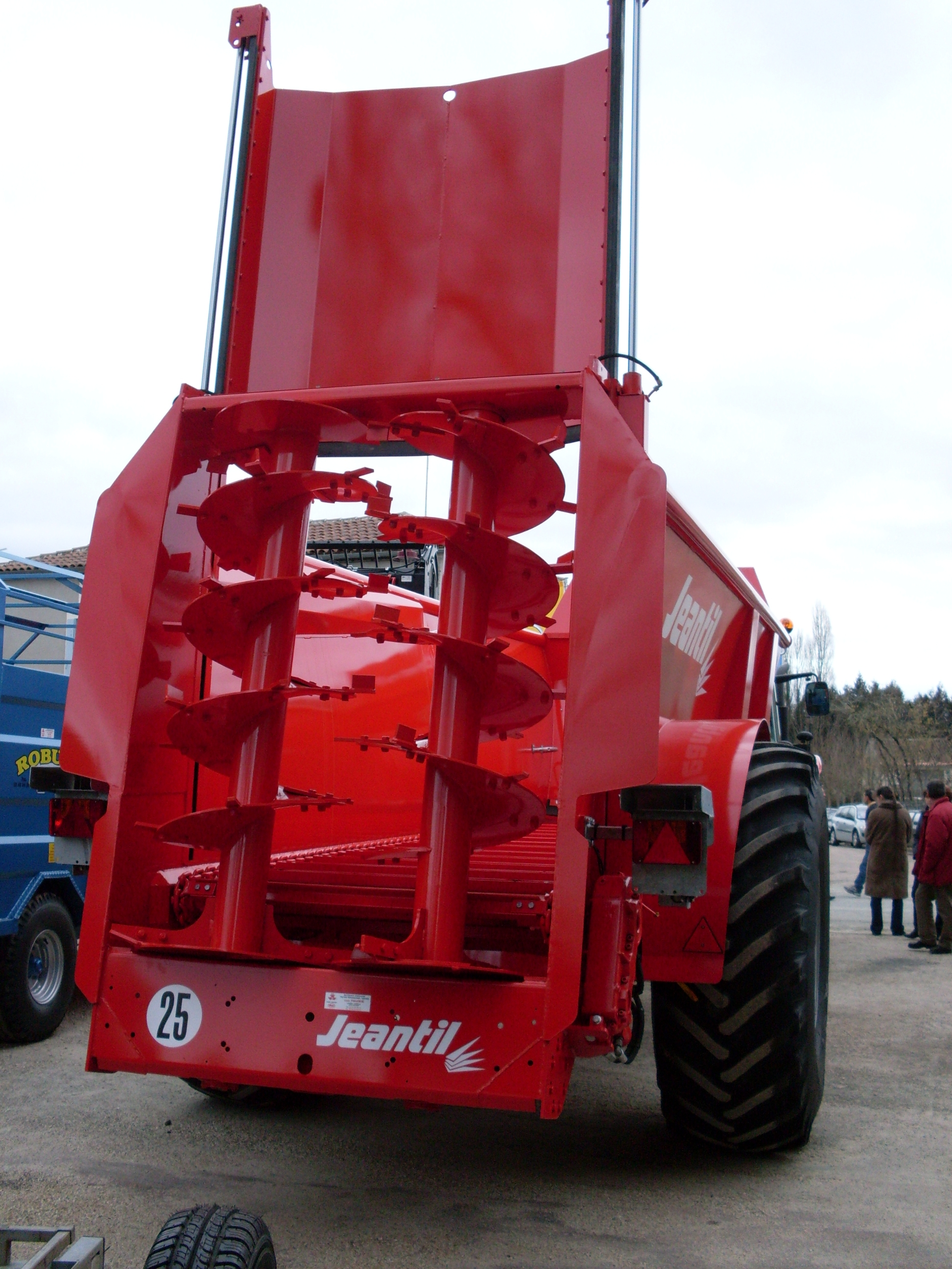 Manure spreader Jeantil